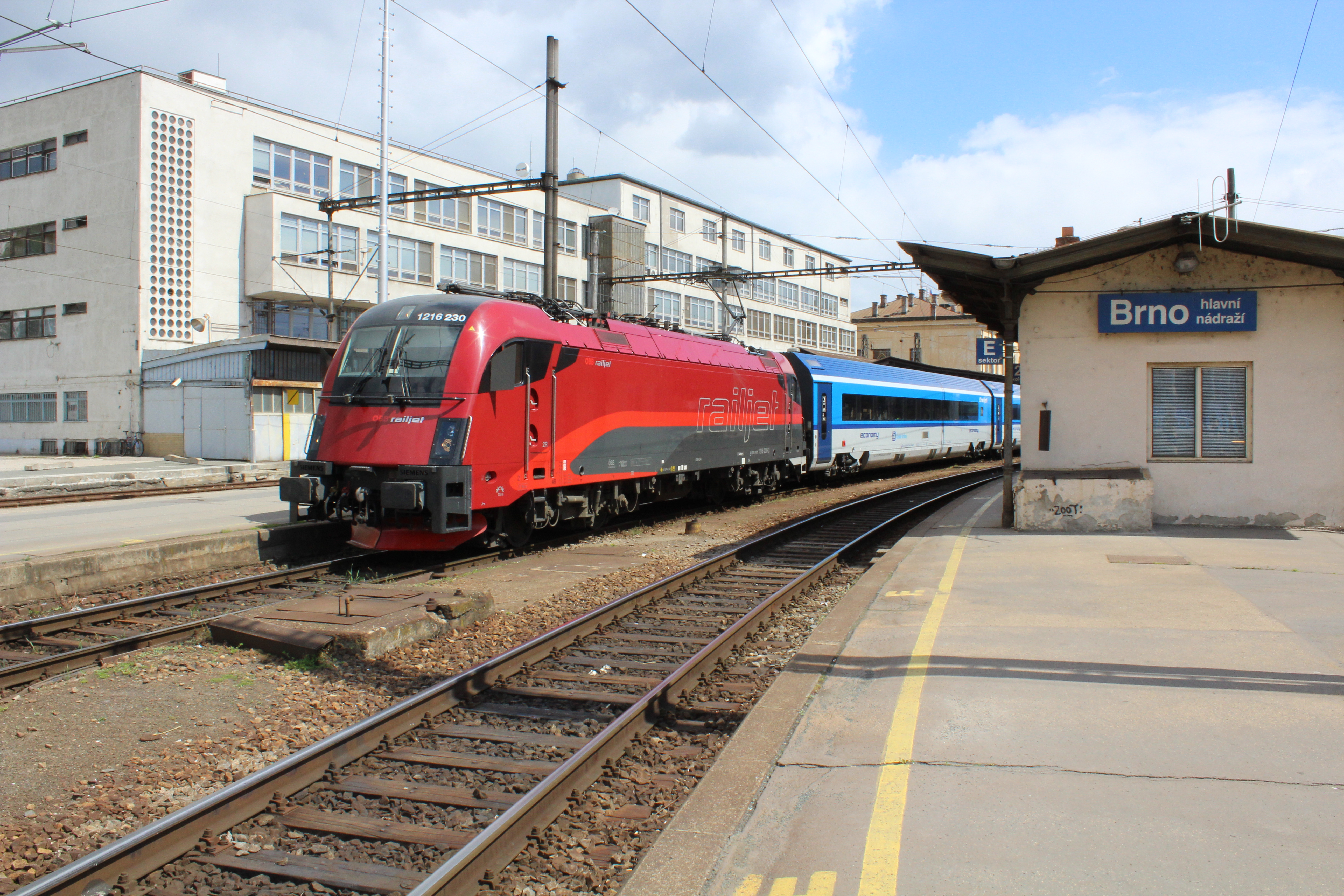 Brno hlavní nádraží - The Railjet ÖOB in 1. plathform